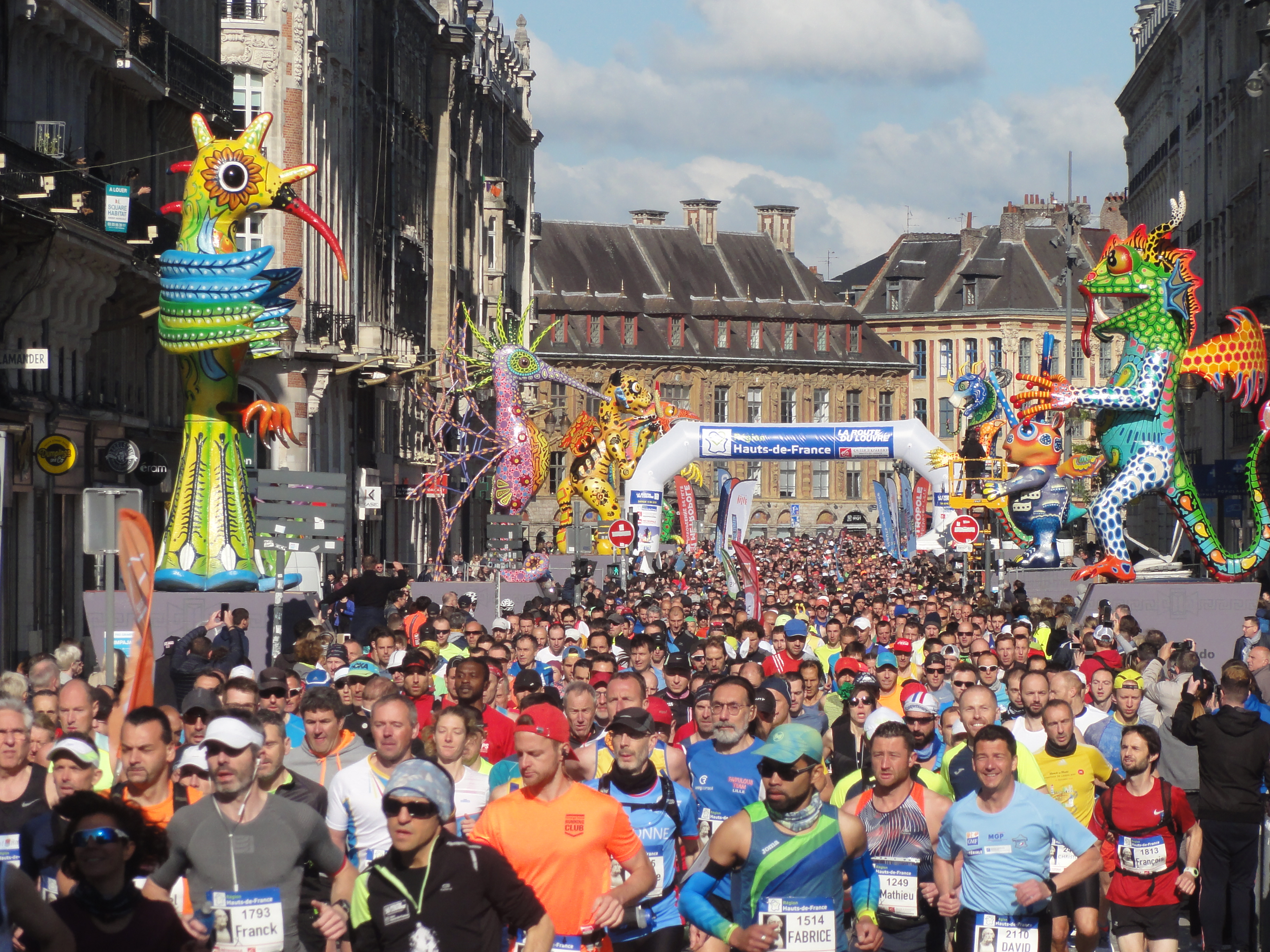 Depicted place: rue Faidherbe